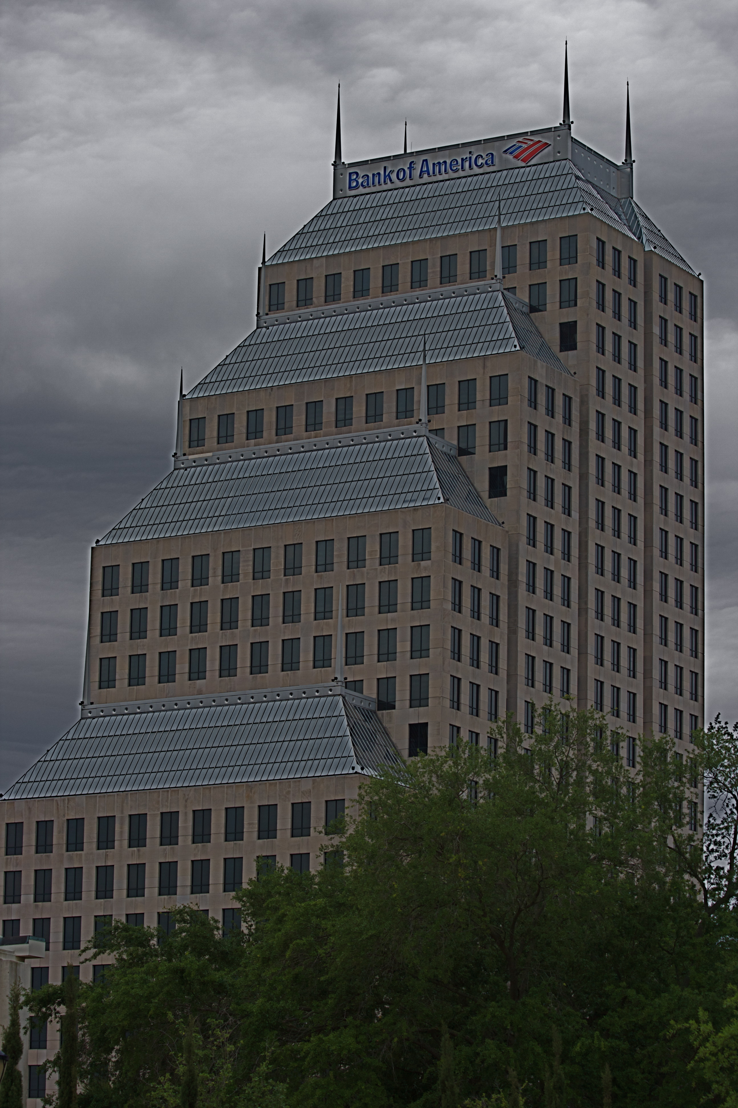 The building in which I work.